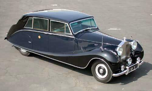 1953 Rolls-Royce Phantom IV made for the Kingdom of Iraq (chassis 4BP3)